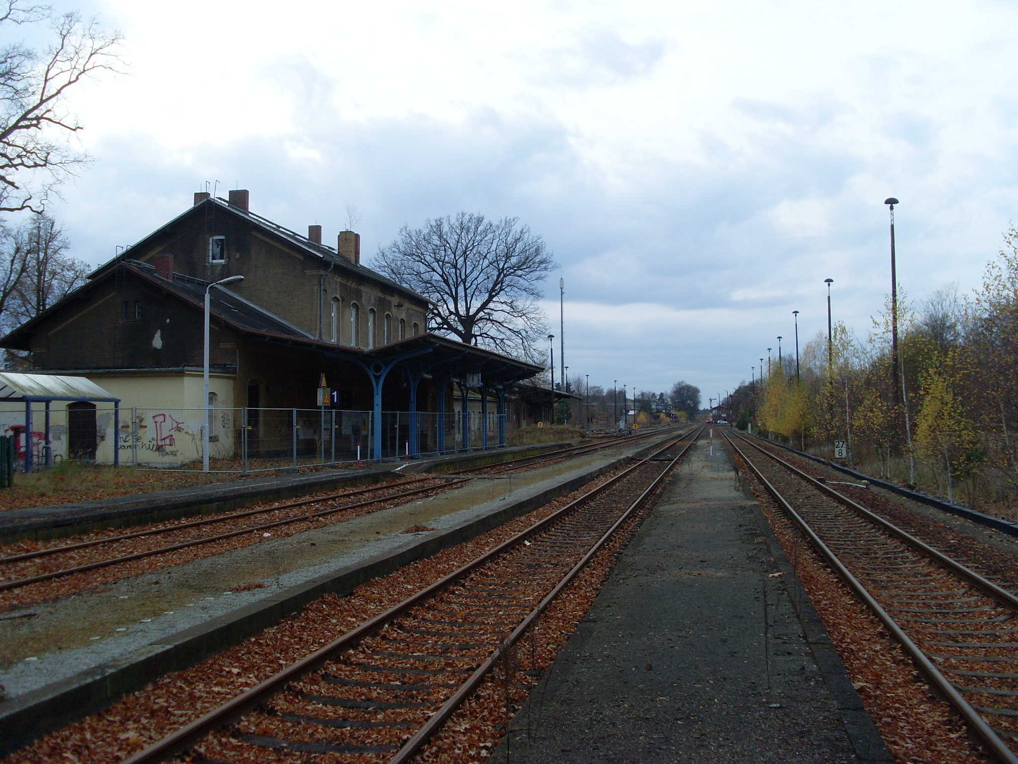 Niesky railway station at Węgliniec–Roßlau railway; view westward, tracks towards Mücka / Hoyerswerda (November 2015 before modernisation, electrification and extension from one to two tracks of this line started)